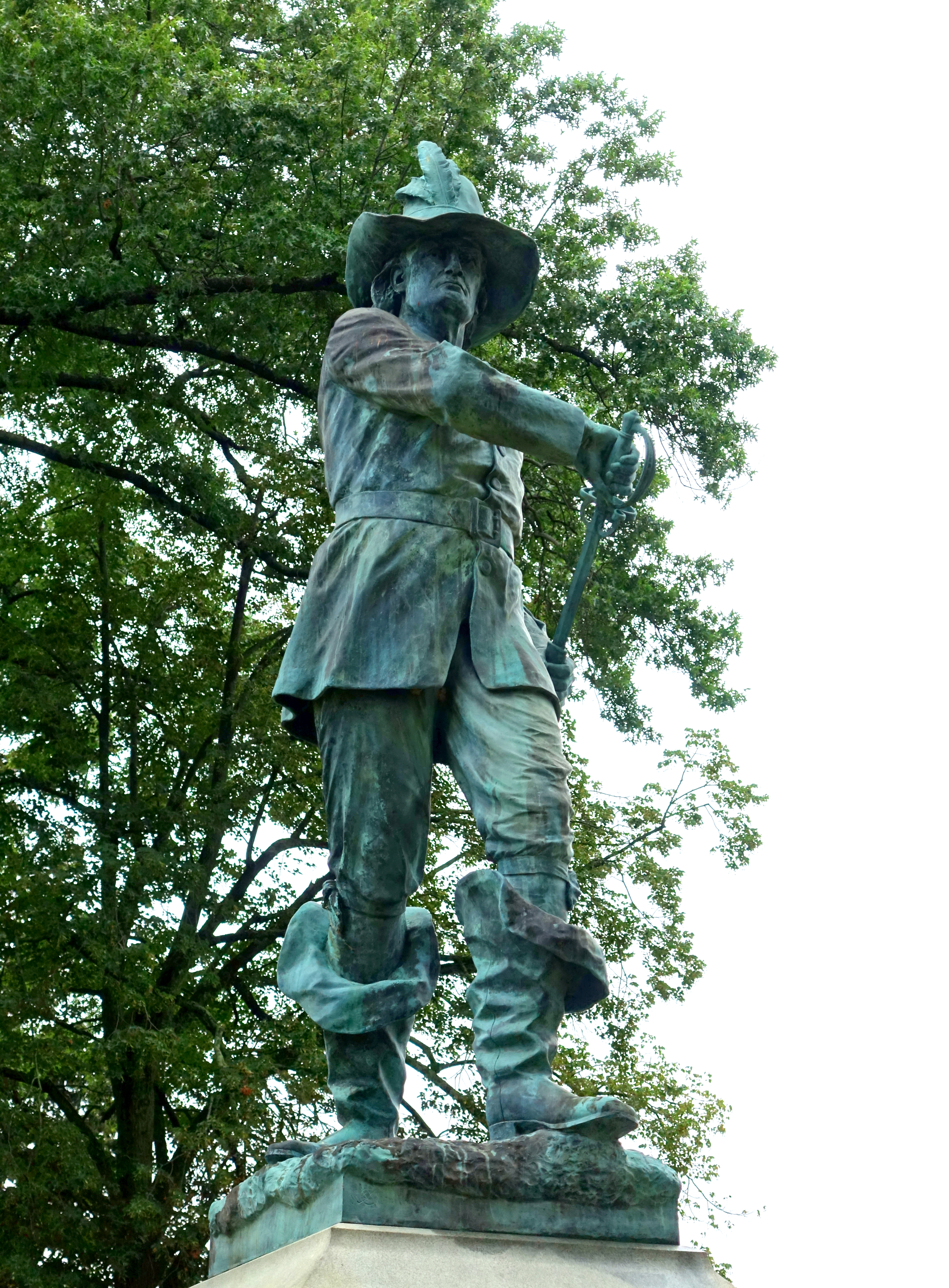 Major John Mason by James C. G. Hamilton, dedicated 1889 - Palisado Green - Windsor, Connecticut, USA.